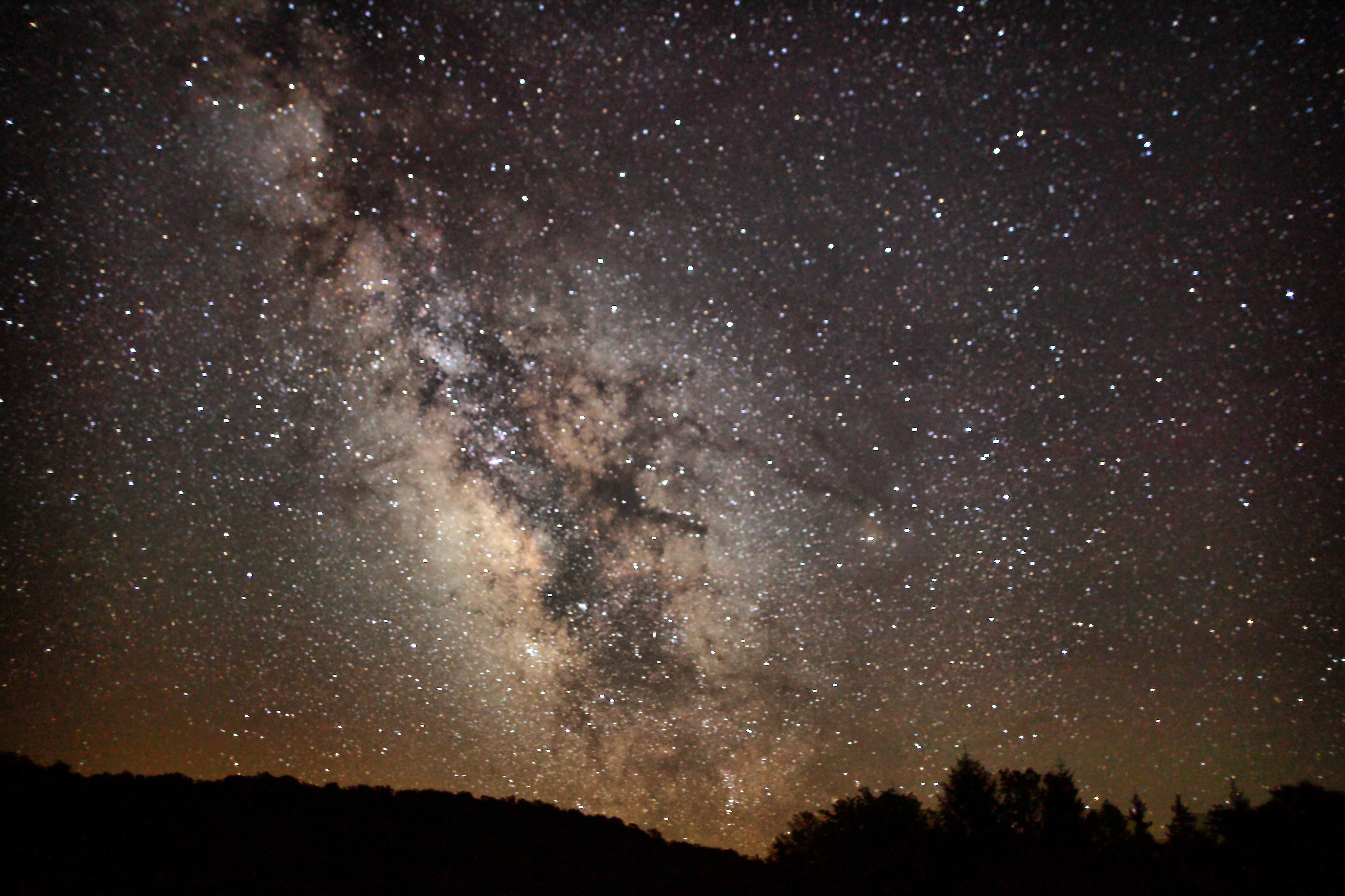 Milky way Galaxy Summit Lake Wv